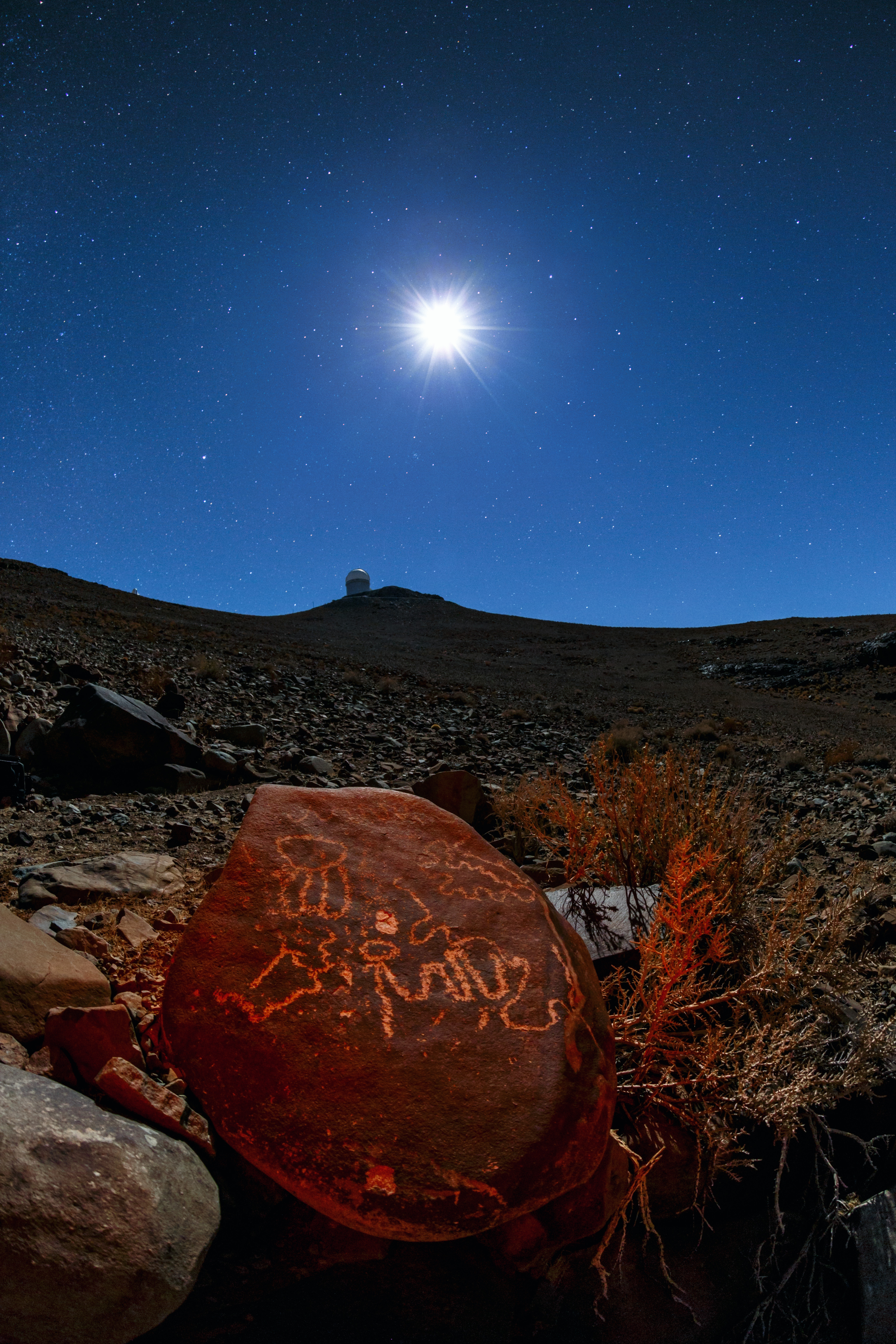 This picture shows the ESO 3.6-metre telescope, located at the La Silla Observatory in Chile. The night sky overhead is dominated by the Moon, which shines so brightly that illuminates the scene fully. The most dominant feature of this image is the red rock in the foreground. It is marked with prehistoric engravings — signatures from the region’s past. Several such engravings can be found around La Silla, but this particular rock is part of the richest site in the area. A complete photographic and topographic survey of these engravings was carried out in 1990. The carved rocks predominantly depict scenes involving men and animals, as well as mysterious geometrical figures. It is believed that these engravings originate from the El Molle complex — the first culture in the north of Chile. Geologists believe that the first millennium of our era experienced a lot more rainfall than it does today, allowing parts of the Atacama Desert to support various civilised cultures.